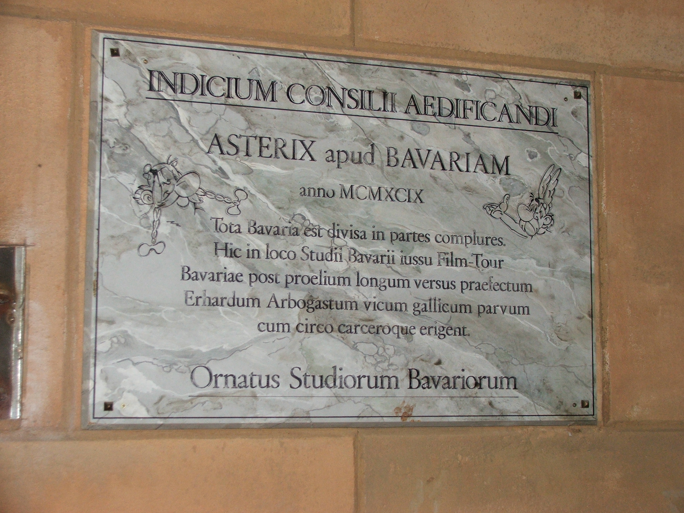 Bavaria Filmstadt, Munich, Bavaria, Germany.